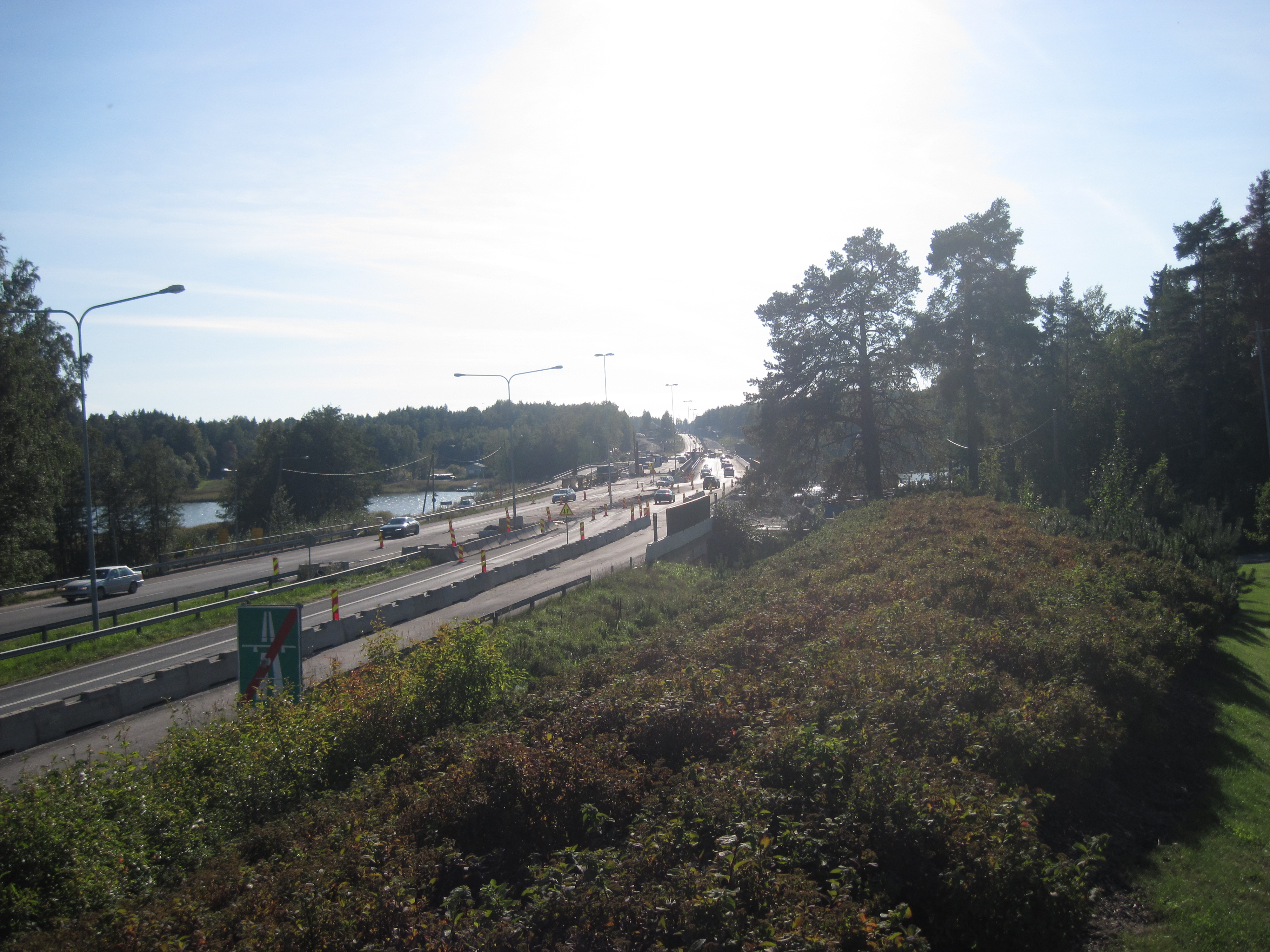 Bridges across Espoonlahti, Finland.